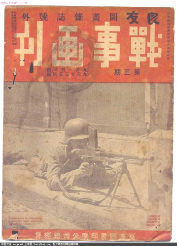 Front cover of one of the War Issues ((战事画刊) of Liangyou magazine, a Chinese pictorial.